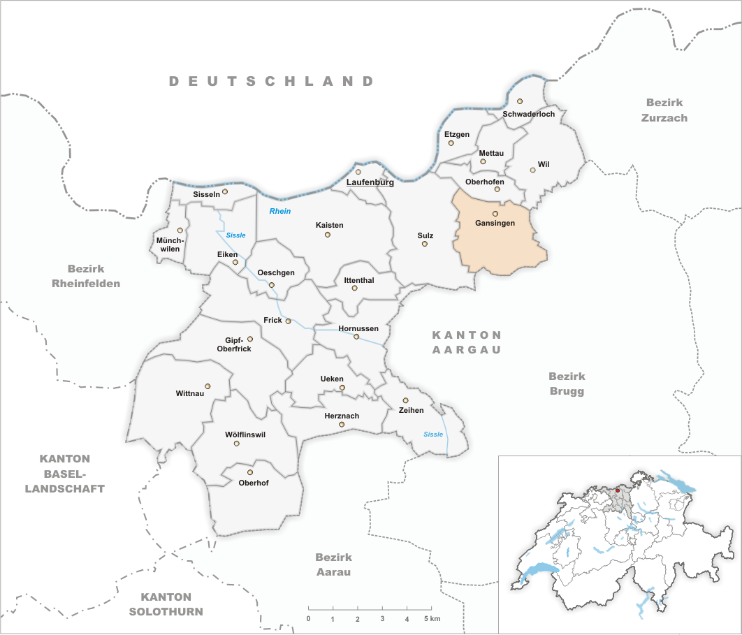 Municipality Gansingen